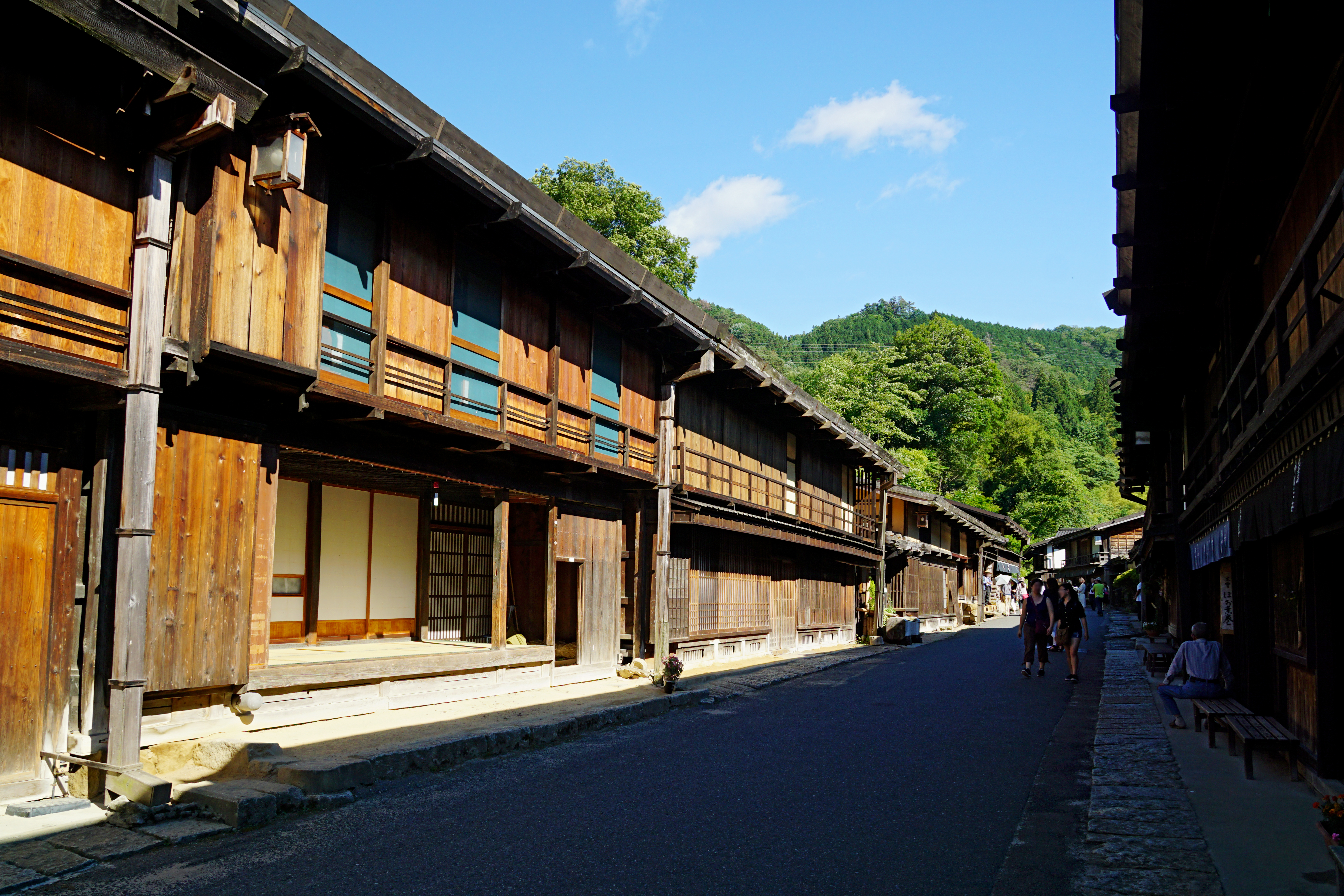 At Tsumago-juku in Nagiso, Nagano prefecture, Japan